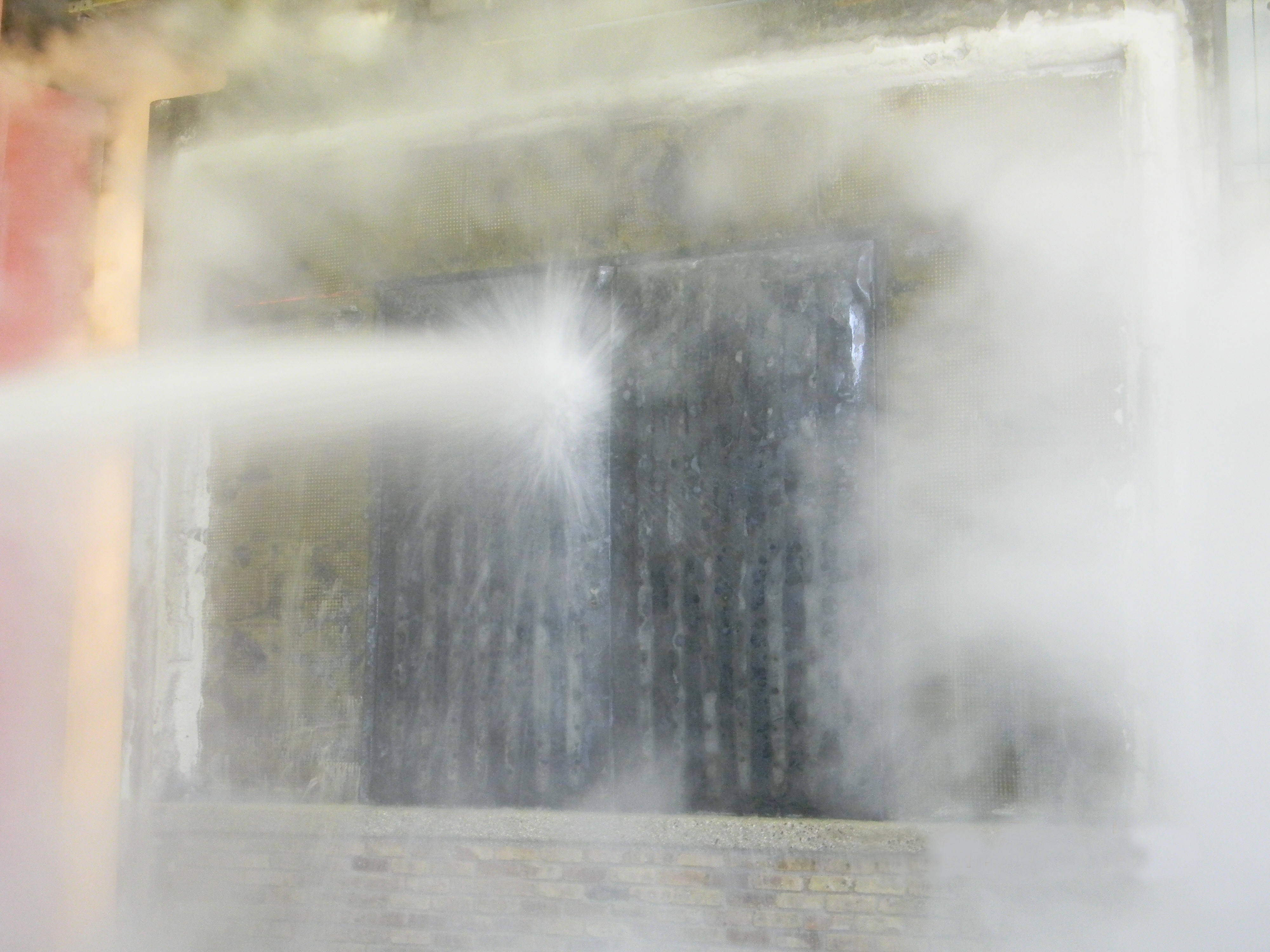 Exposed side of a 4 hour Durasteel wall per UL Design V460 with DuraSystems Type CFD fire door and CFF firedoor frame per UL Listing SP-2-003 after a 3 hour fire test (doors are derated from walls), during successful 45PSI (3.1 bar) hose stream test.